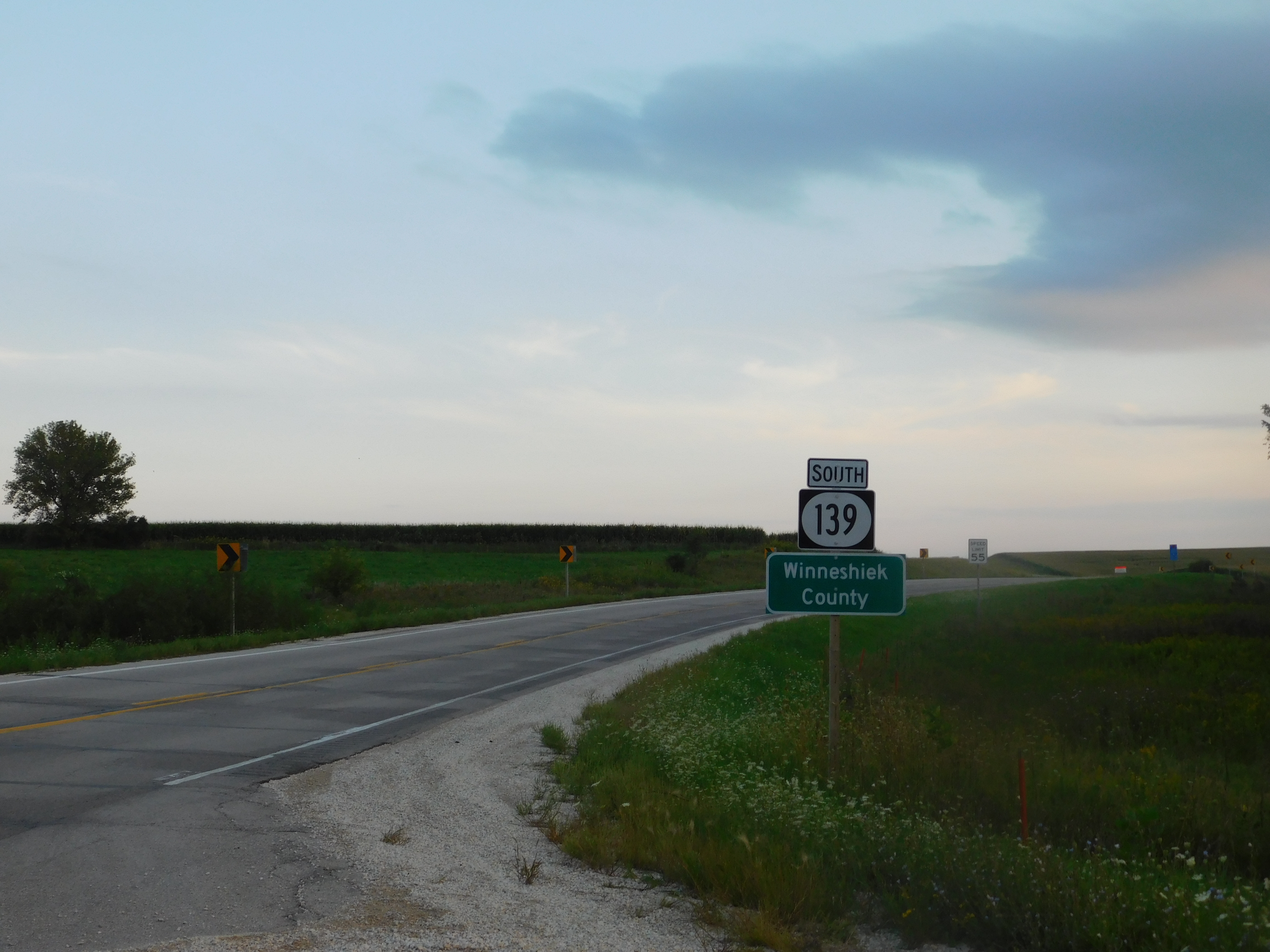 Iowa Highway 139 southbound at the Minnesota state line.